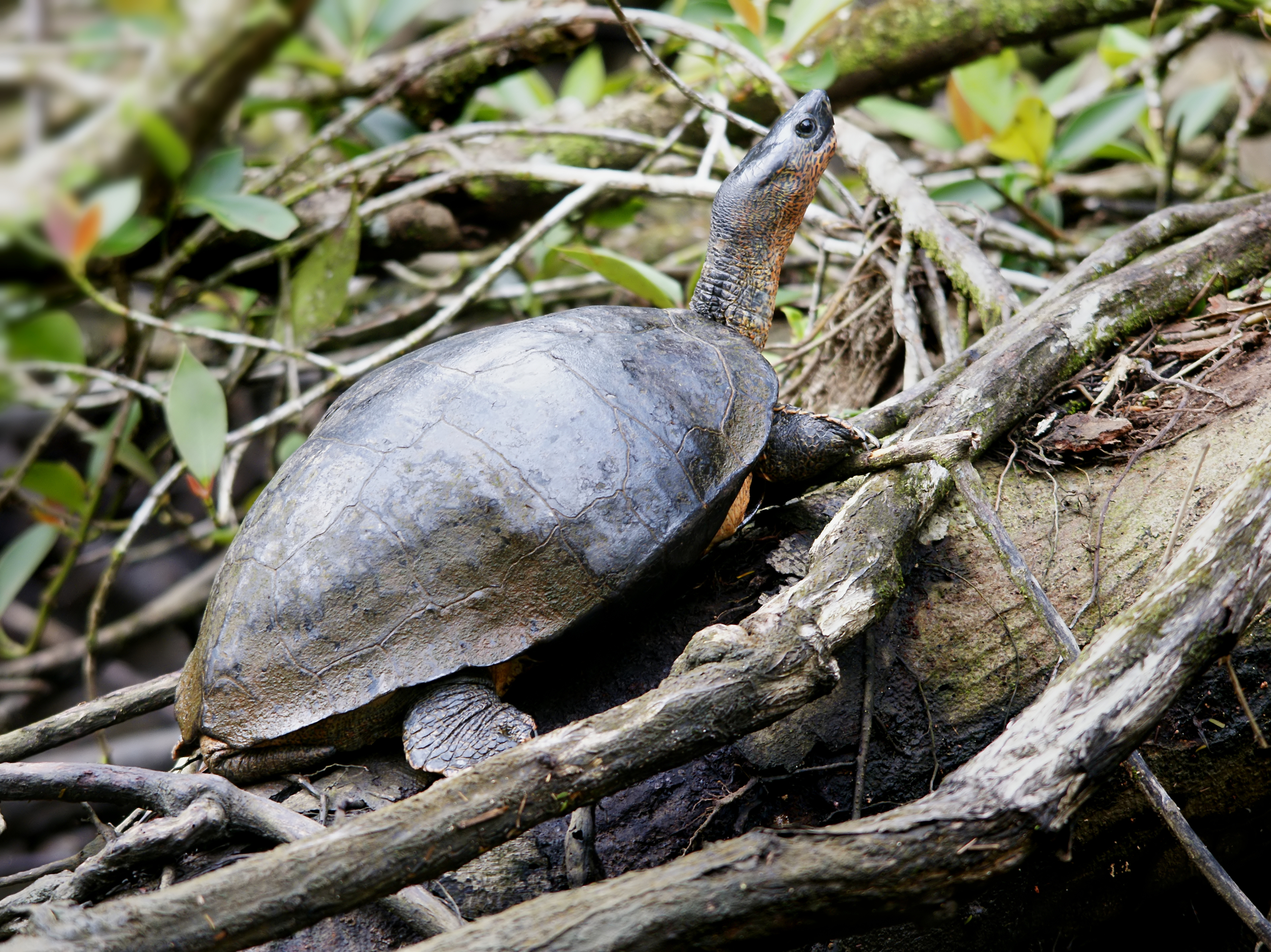 Black Wood Turtle at Tortuguero, Costa RicaPicture taken from a small canoe.